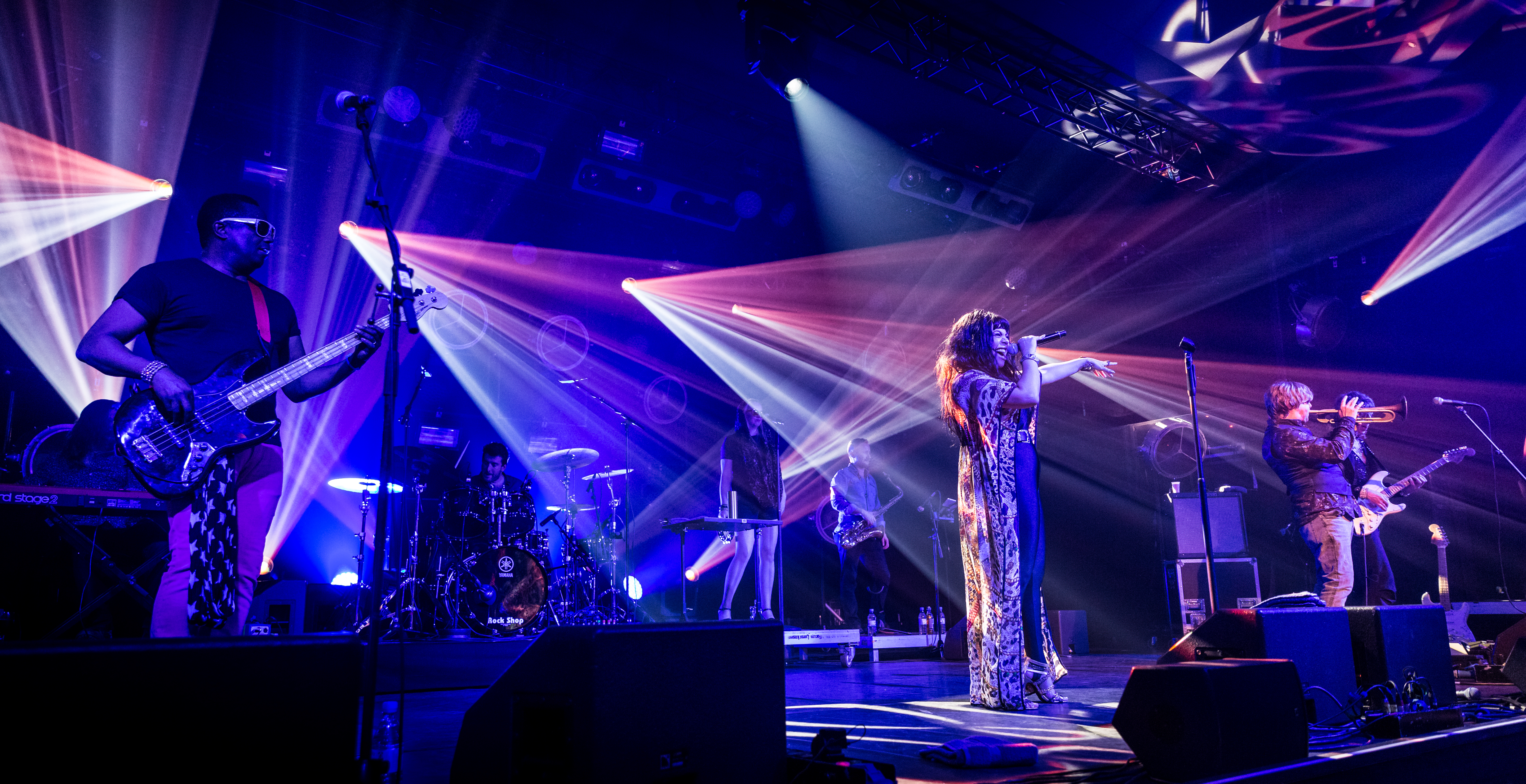 The Brand New Heavies - Leverkusener Jazztage 2016